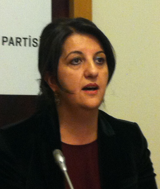 Press conference of the Turkish Peoples' Democratic Party (HDP)